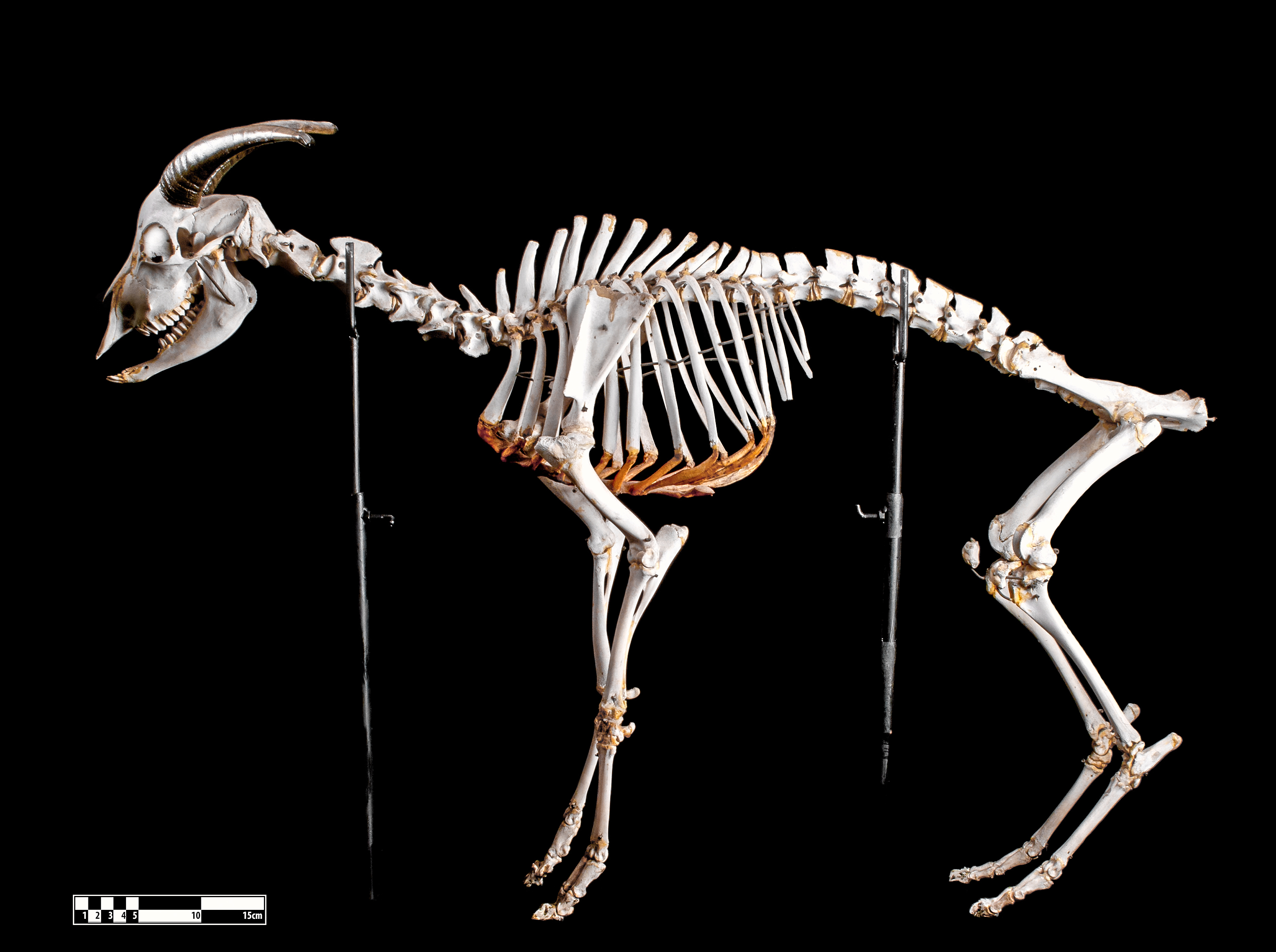 Goat. Capra aegagrus hircus Specimen of goat skeleton prepared by the bone maceration technique and on display at the Museum of Veterinary Anatomy FMVZ USP. This file was published as the result of a partnership between the Museum of Veterinary Anatomy FMVZ USP, the RIDC NeuroMat and the Wikimedia Community User Group Brasil. This GLAM project is reported. Photography: Museum of Veterinary Anatomy FMVZ USP. Author: Wagner Souza e Silva.